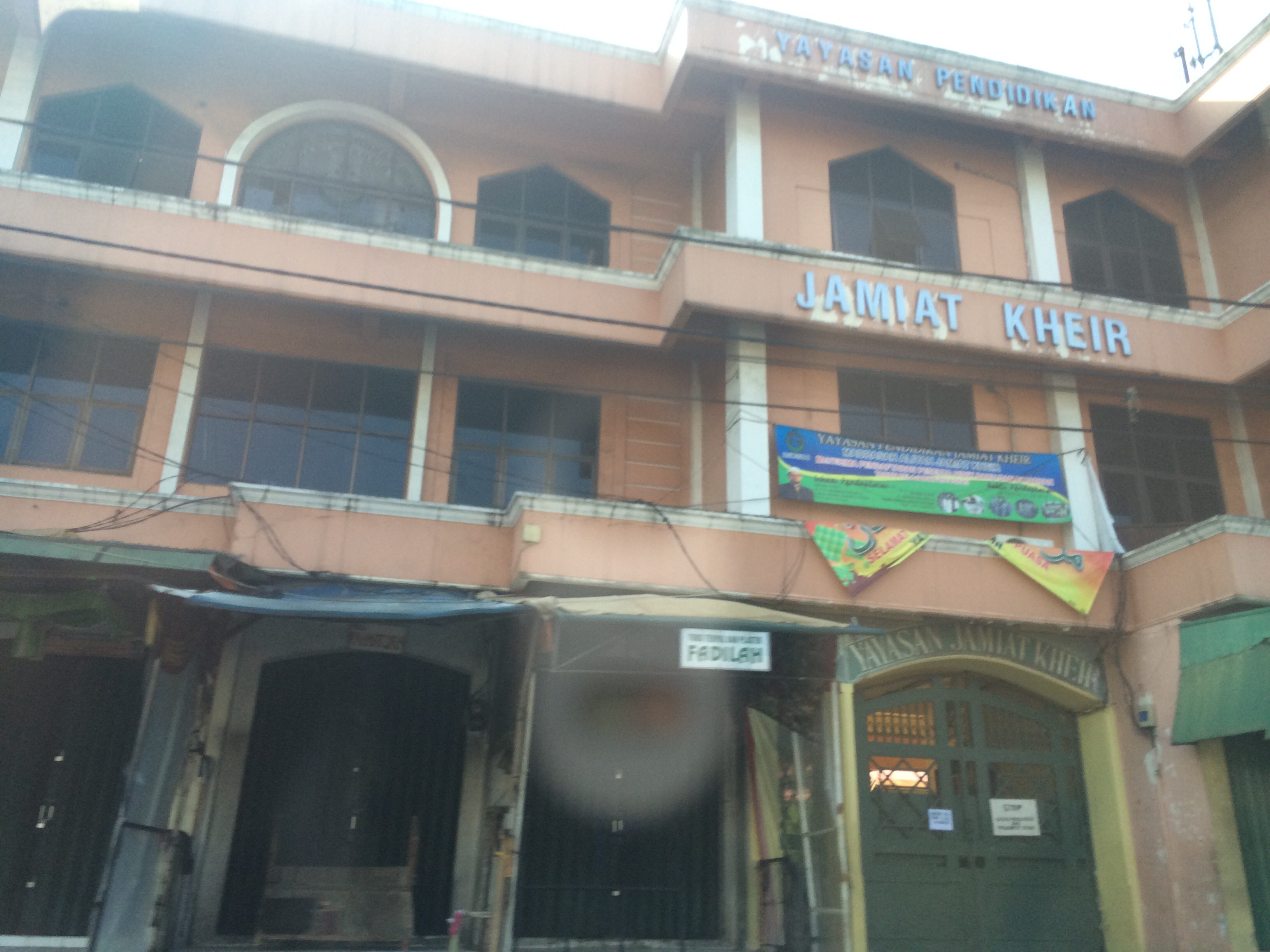 Taken in August 2014